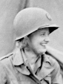 Female war correspondent Ruth Cowan, Associated Press during World War II.